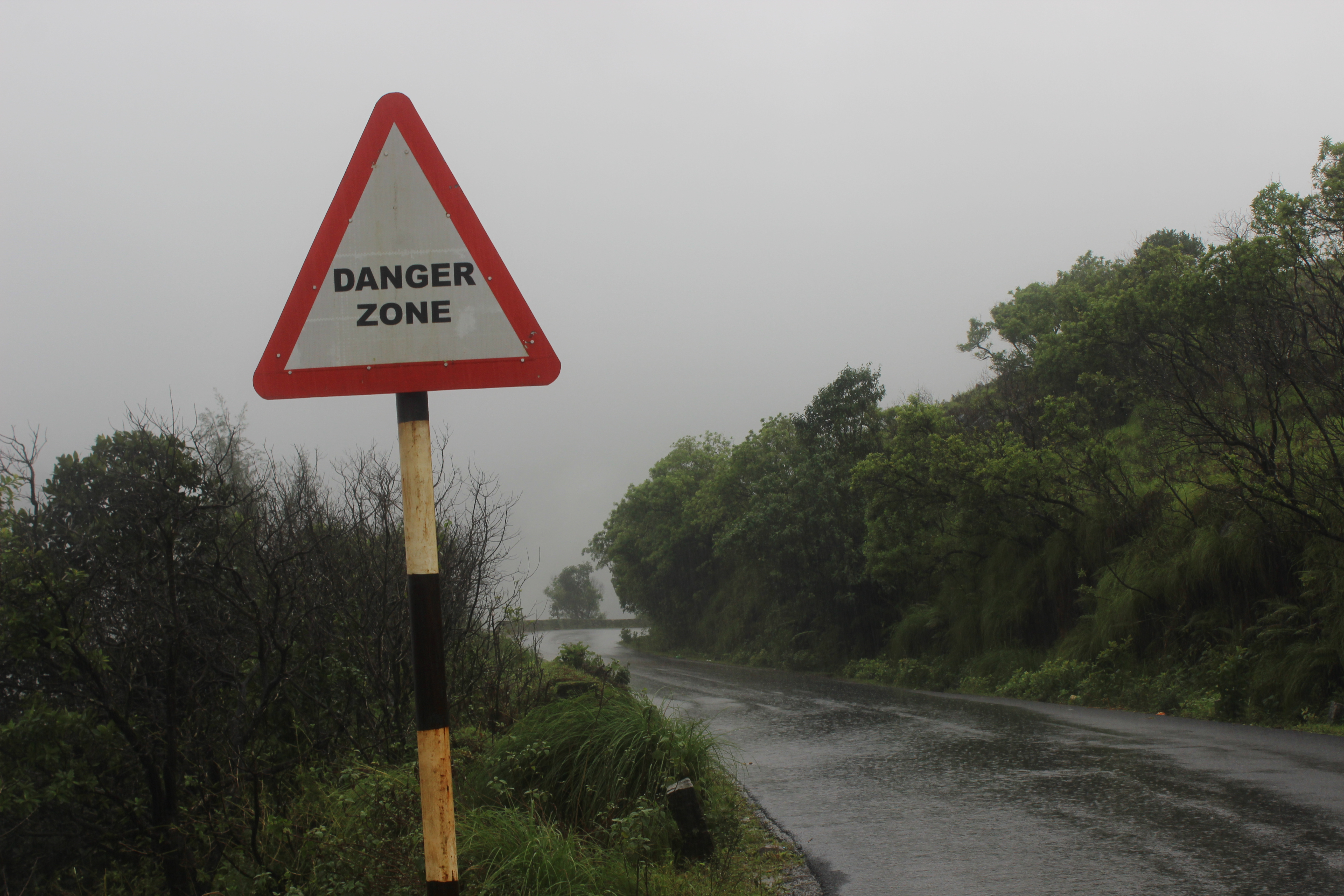 Kudremukh national park is home to wild Gaurs and also it houses tigers and bisons. Located in the dense forests of western ghats, it is an unexplored paradise.